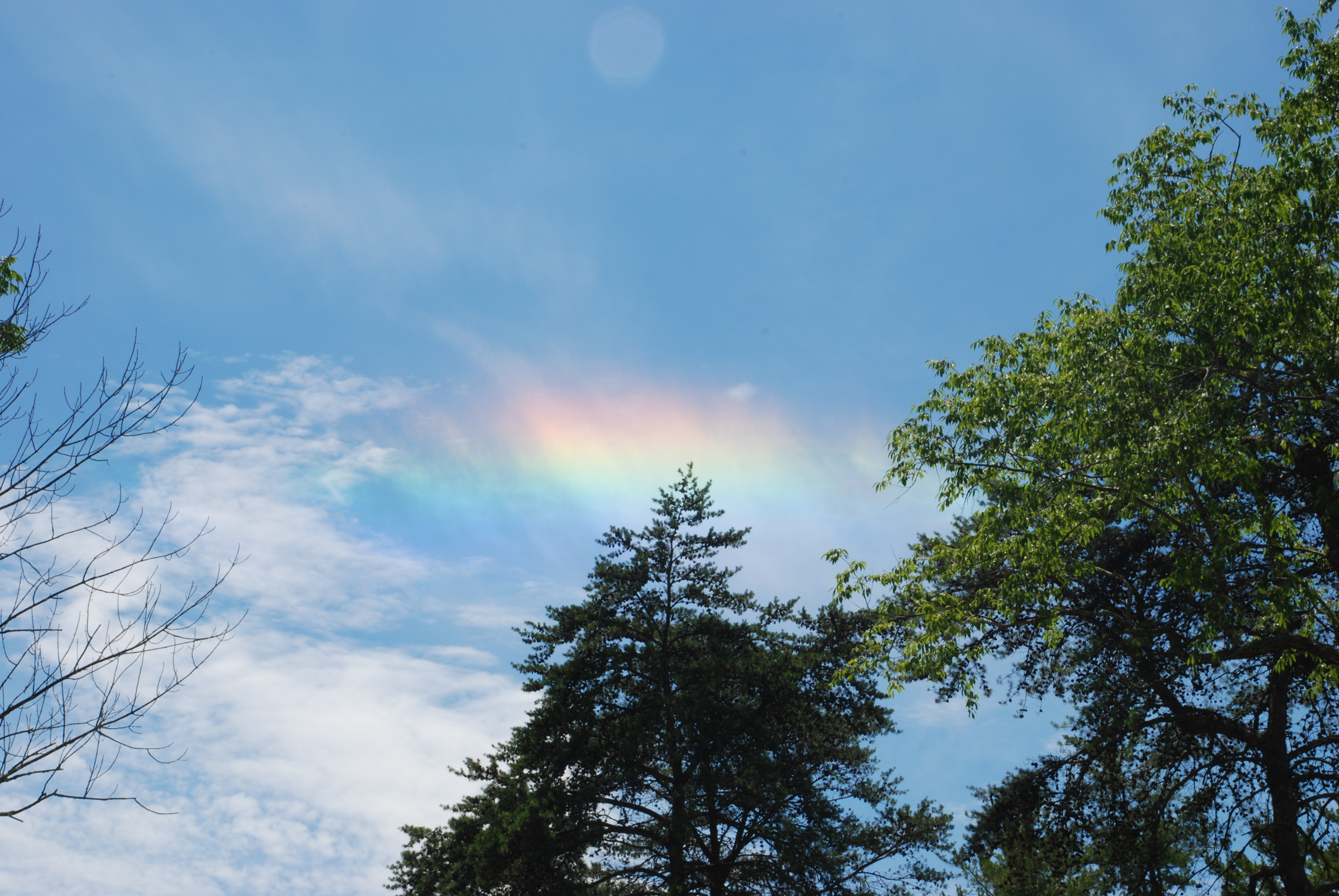 A circumhorizontal arc photographed in Hocking Hills, Ohio on June 30th, 2007